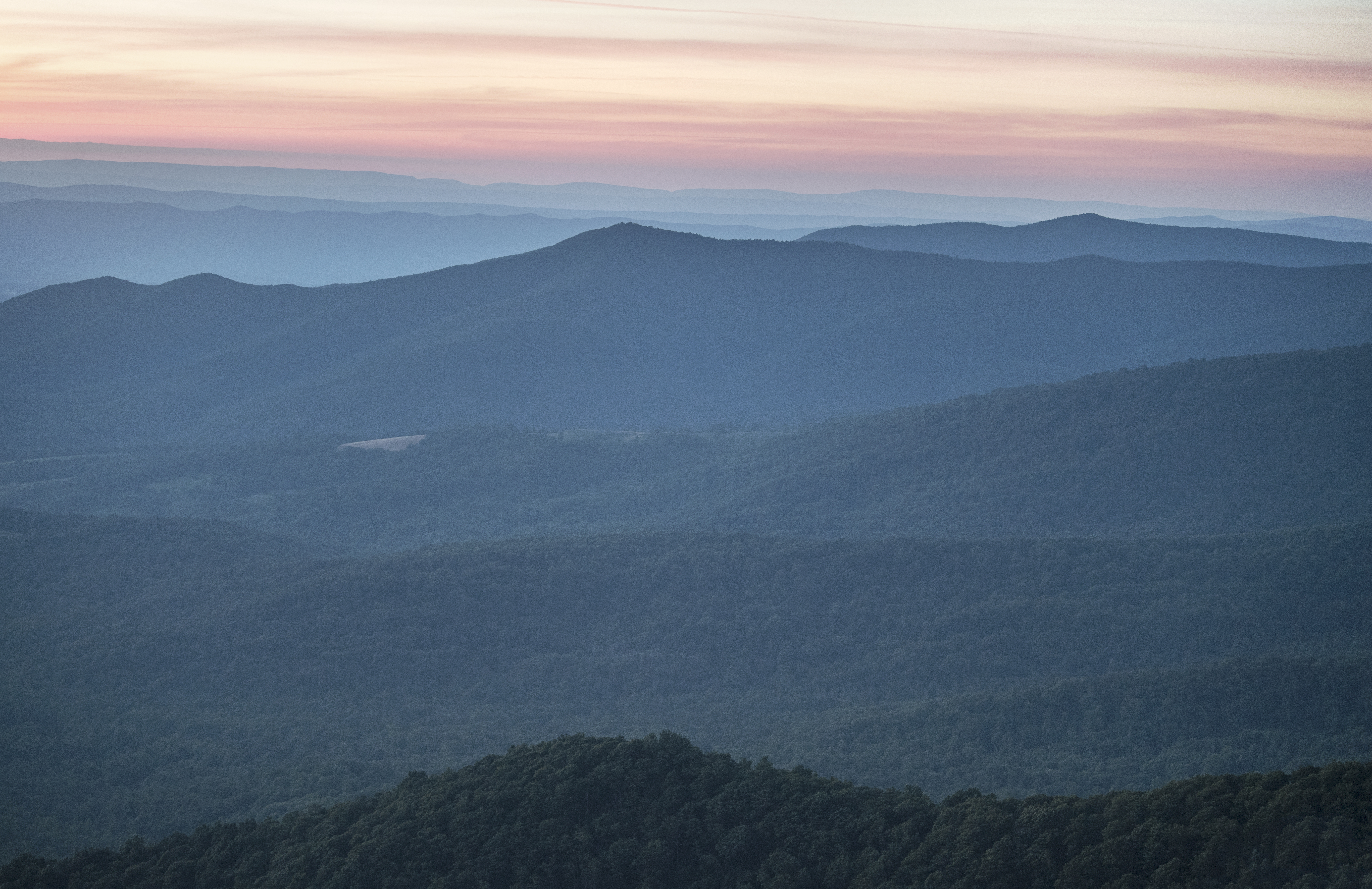 View from Skyline Drive in Shenandoah National Park, Virginia, USA. This image may be used freely under the CC-BY license, but attribution must go to (and a hyperlink must be present if usage is on the web). This image is a part of a series on every US National Park which can be found at at